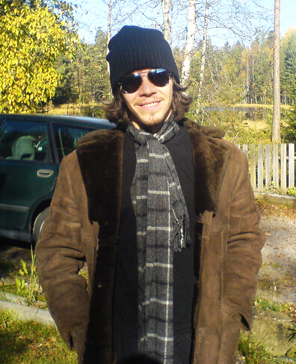 Private picture of myself ...